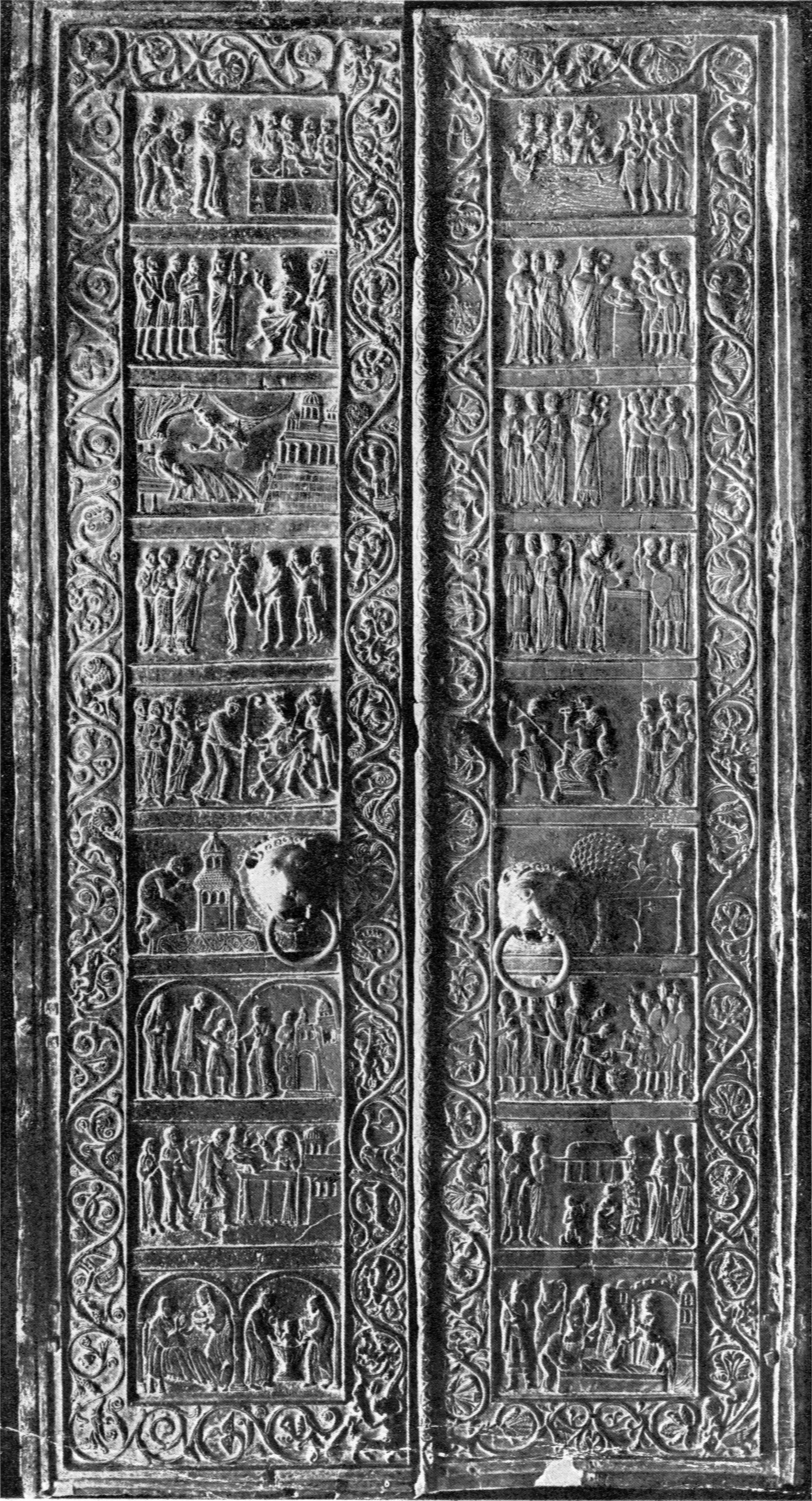 Gniezno Cathedral door